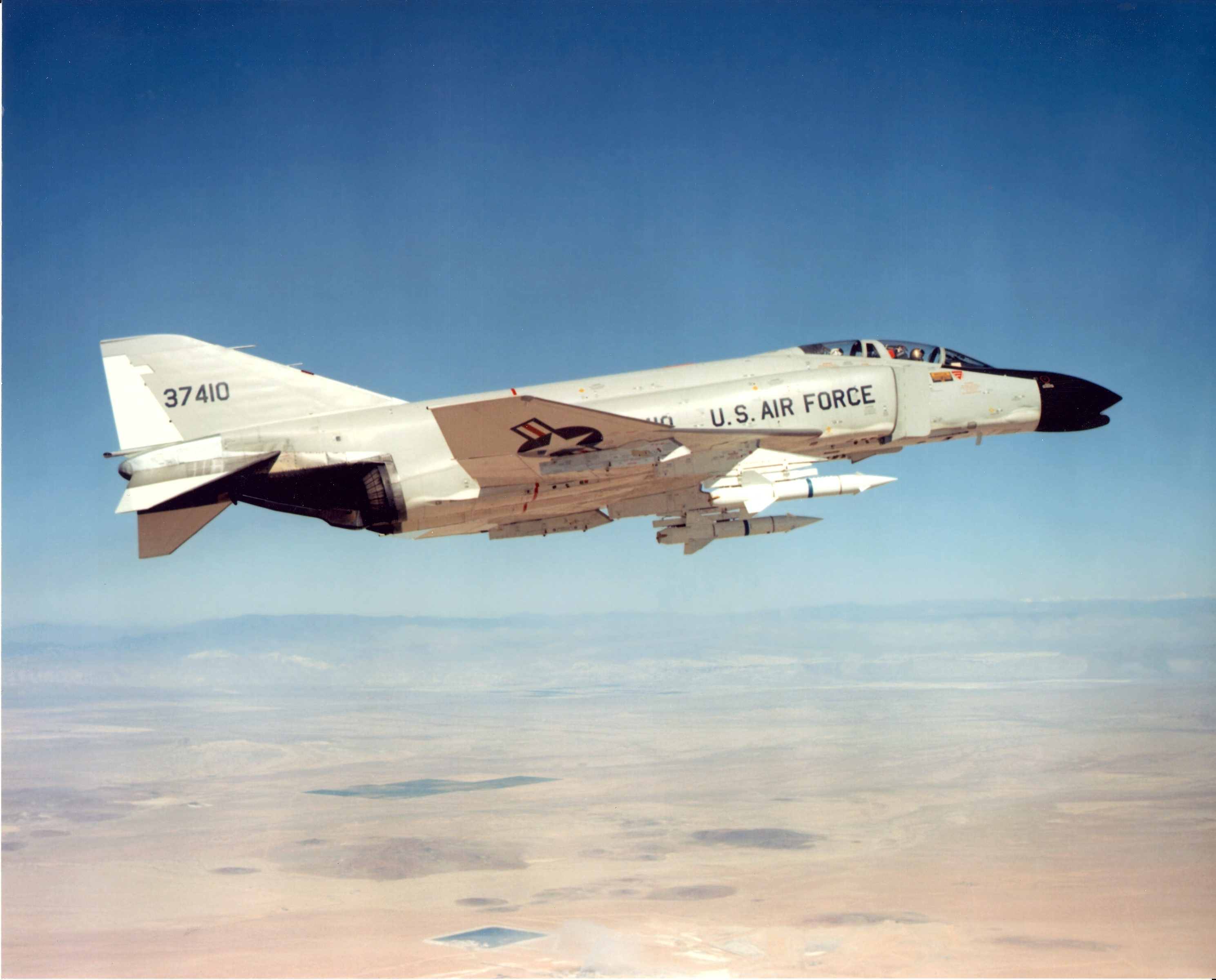 A U.S. Air Force McDonnell F-4C-15-MC Phantom II (s/n 63-7410) during weapons tests, armed with AGM-12 Bullpup missiles in the early 1960s. This aircraft was the third F-4C built for the USAF and crashed at Tulsa, Oklahoma (USA) on 24 January 1981.